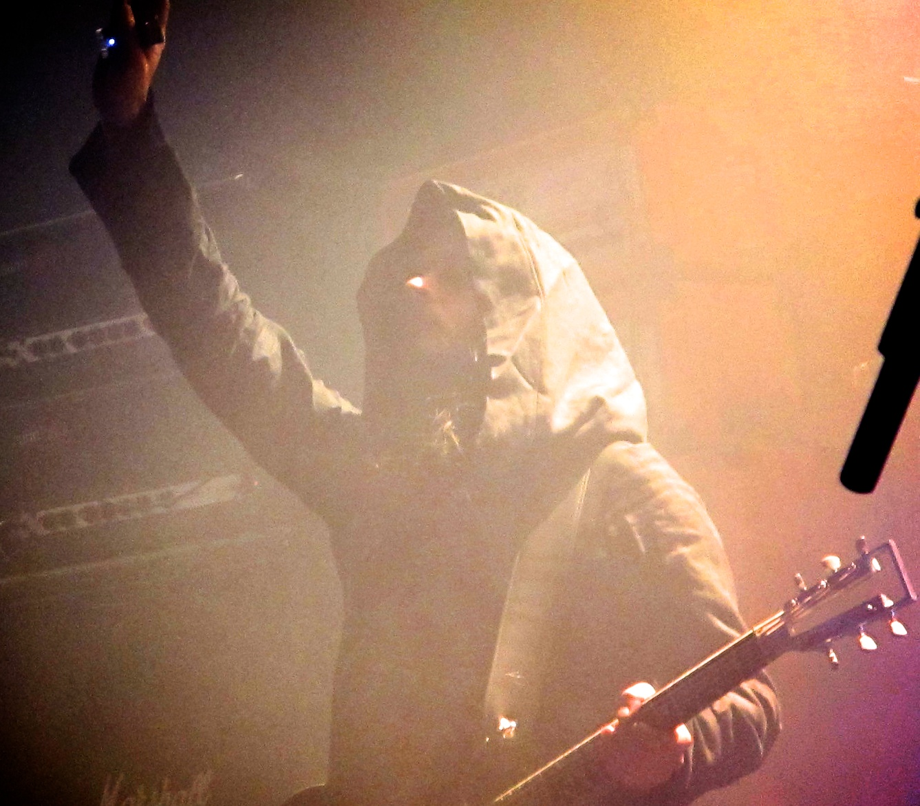 Greg Anderson of Sunn O))) playing live.